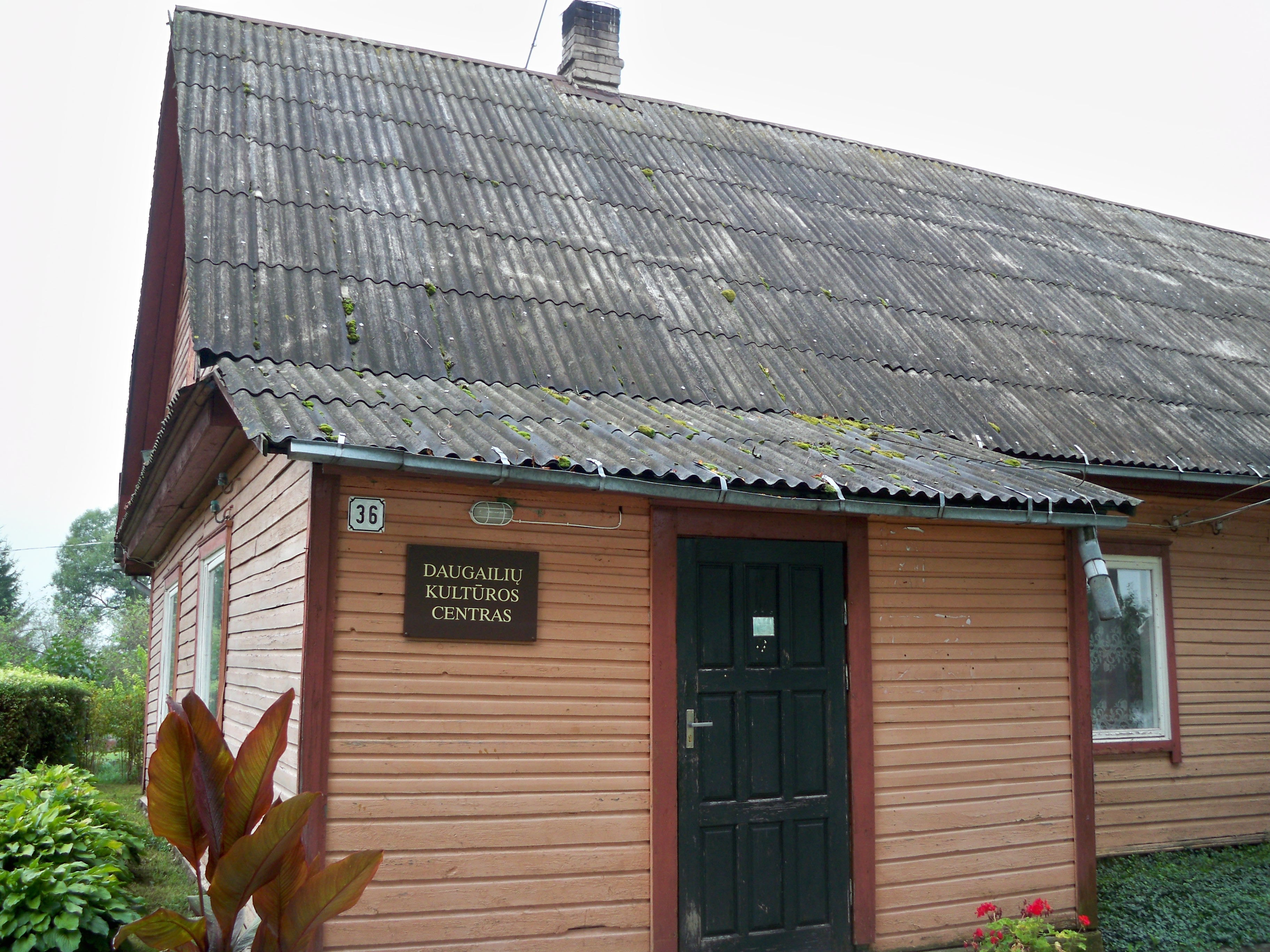 Daugailiai. Center of culture.